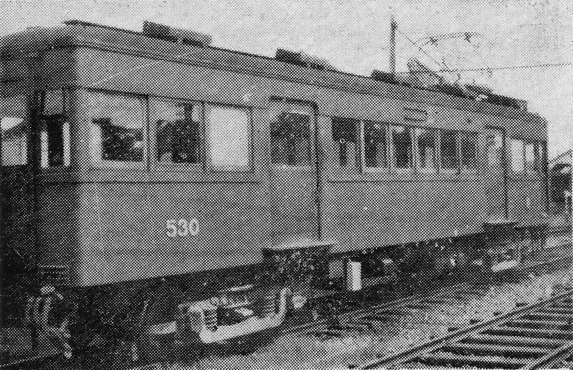 Hankyu Railway 500 series tramcar No. 530